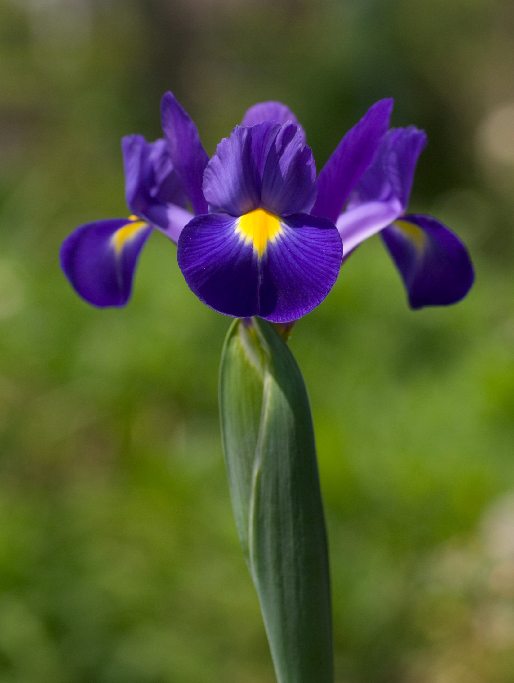 Siberian iris